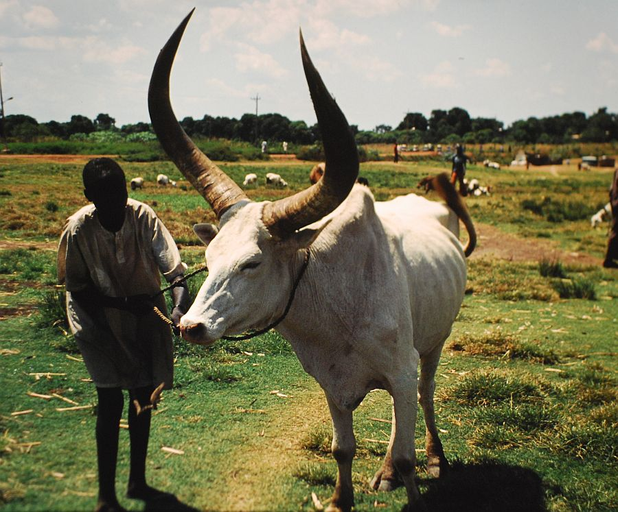 Man shows his personal cattle